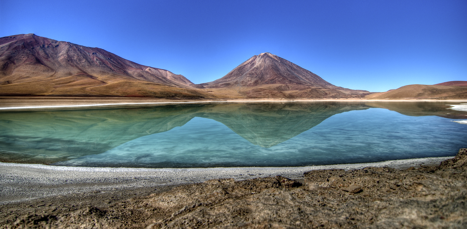 Mountains being reflected by a lake near Uyuni. October 2007.